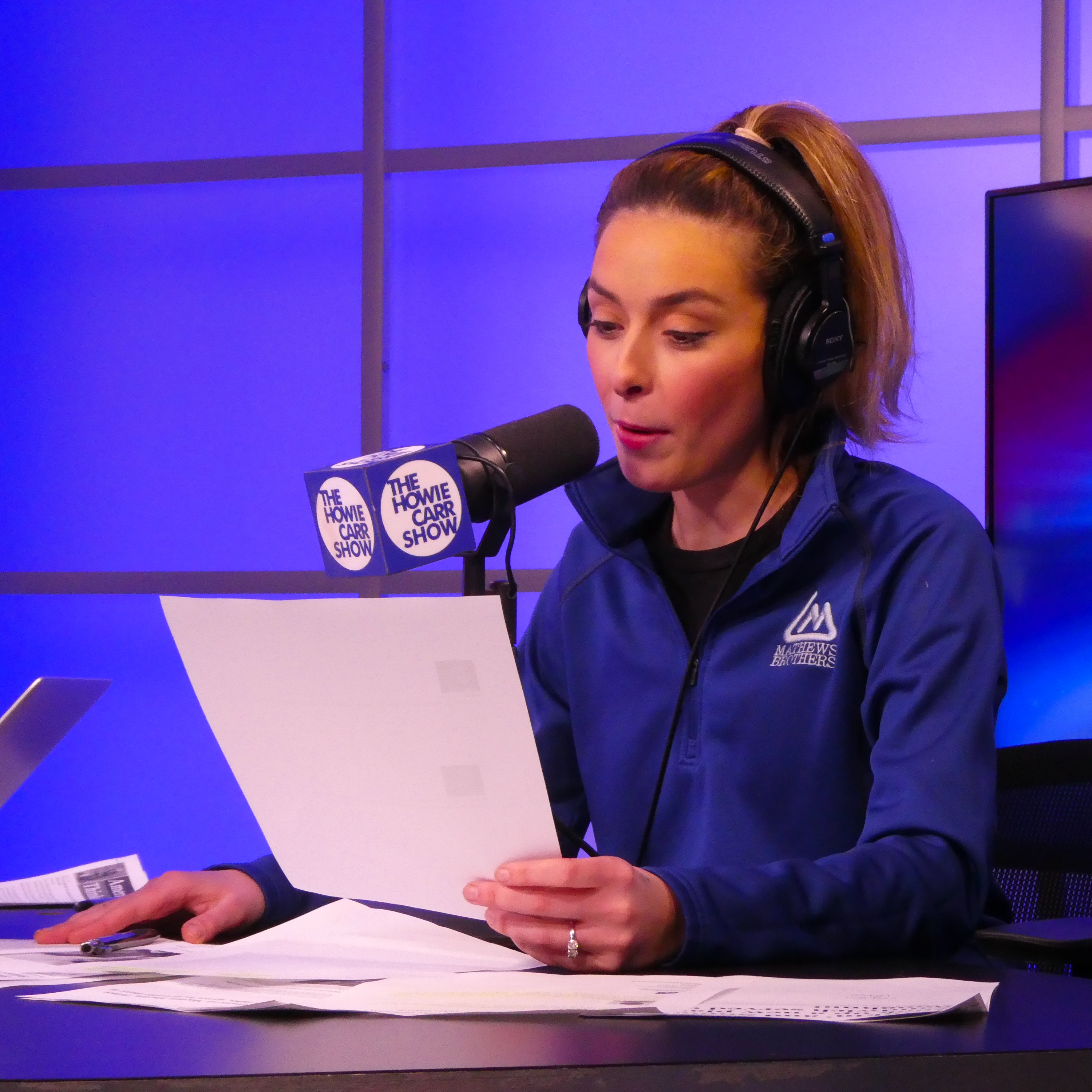 This is Grace Curley, co-executive producer of the Howie Carr Show during a live broadcast at the Needham, MA studio January 13, 2020.